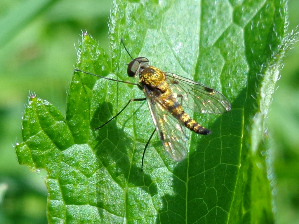 Chrysopilus asiliformis. Found in Riga town, Latvia